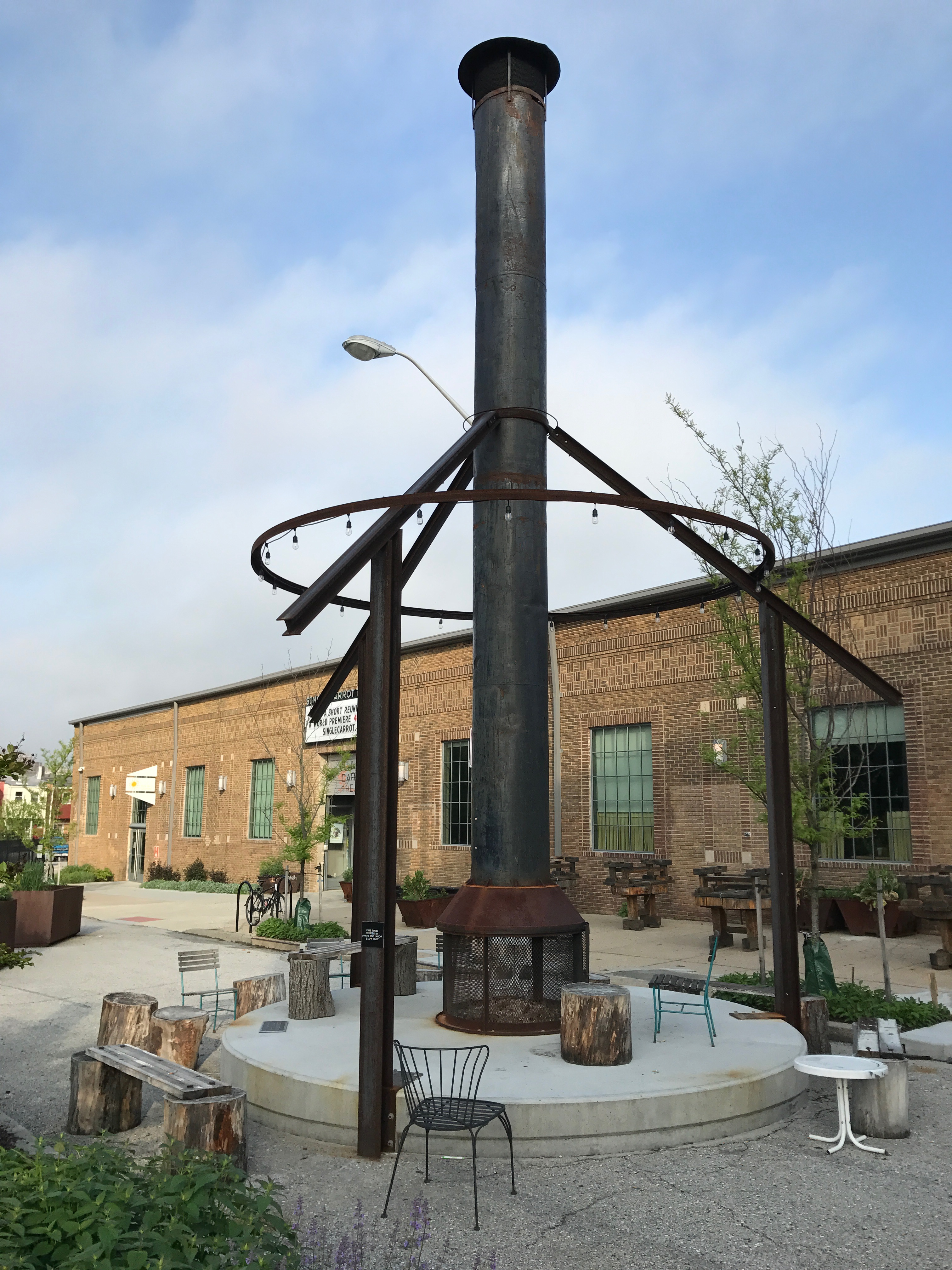 Photograph by Eli Pousson, 2017 April 27.